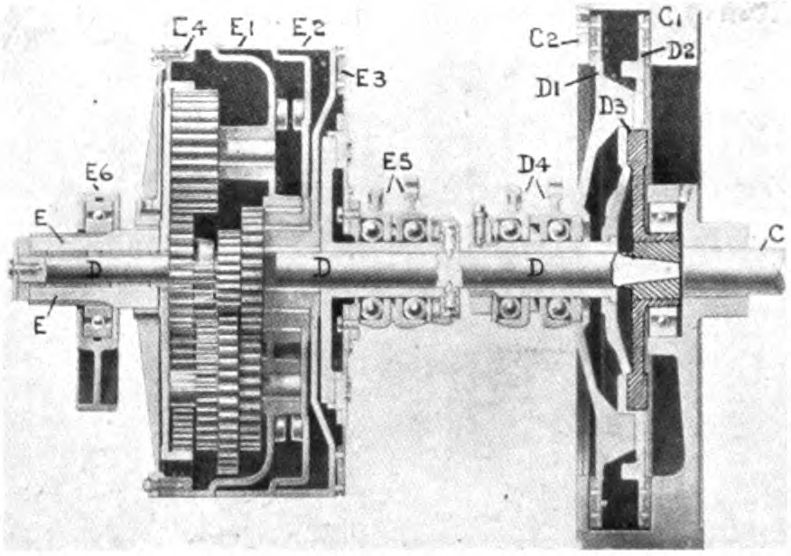 1905 Cadillac Model D showing epicyclic or planetary gearbox and clutch